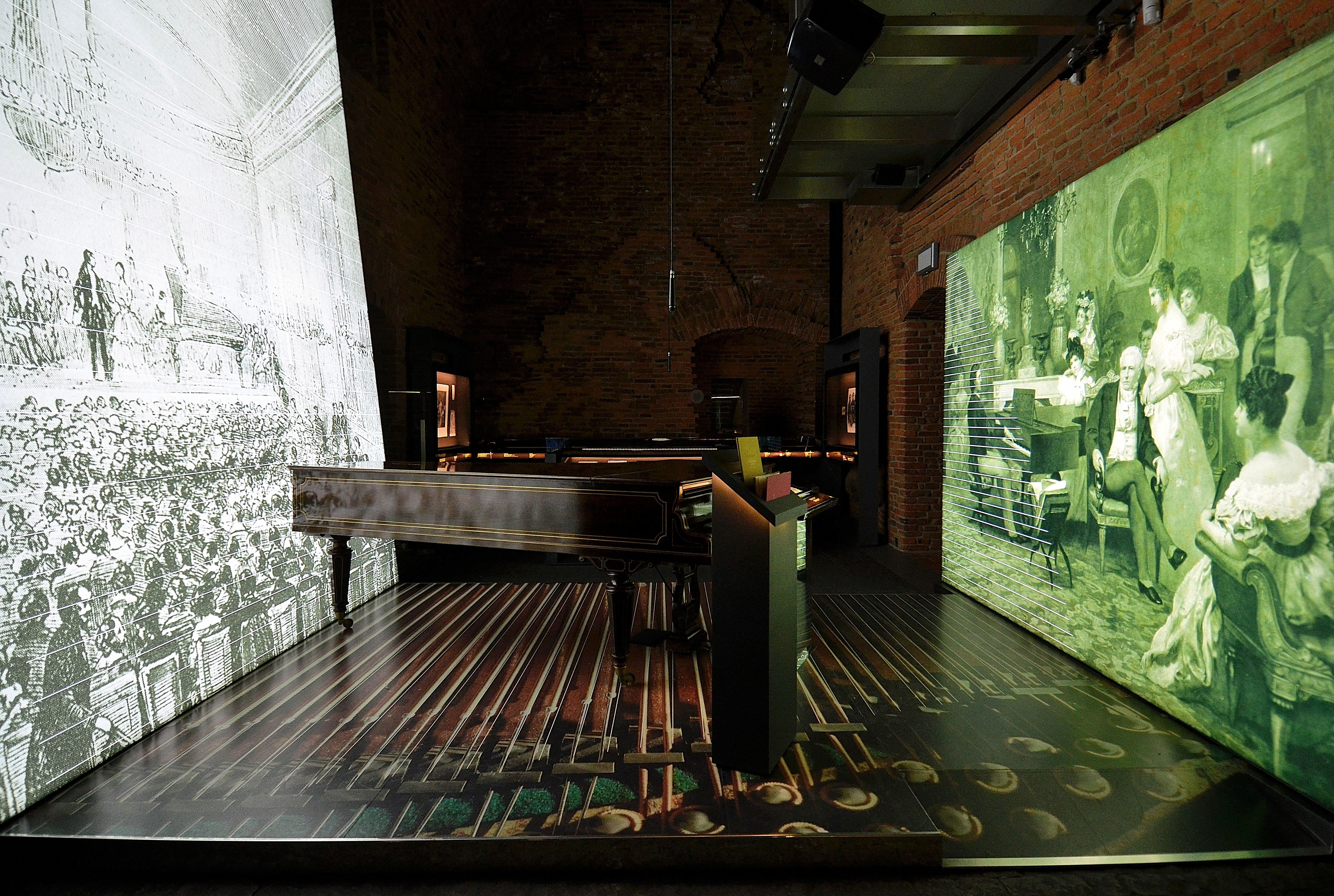 Frederick Chopin Museum in Warsaw. Piano manufactured by Sebastian Erard Company in 1856 (no 26606) which belonged to Ferenc Liszt